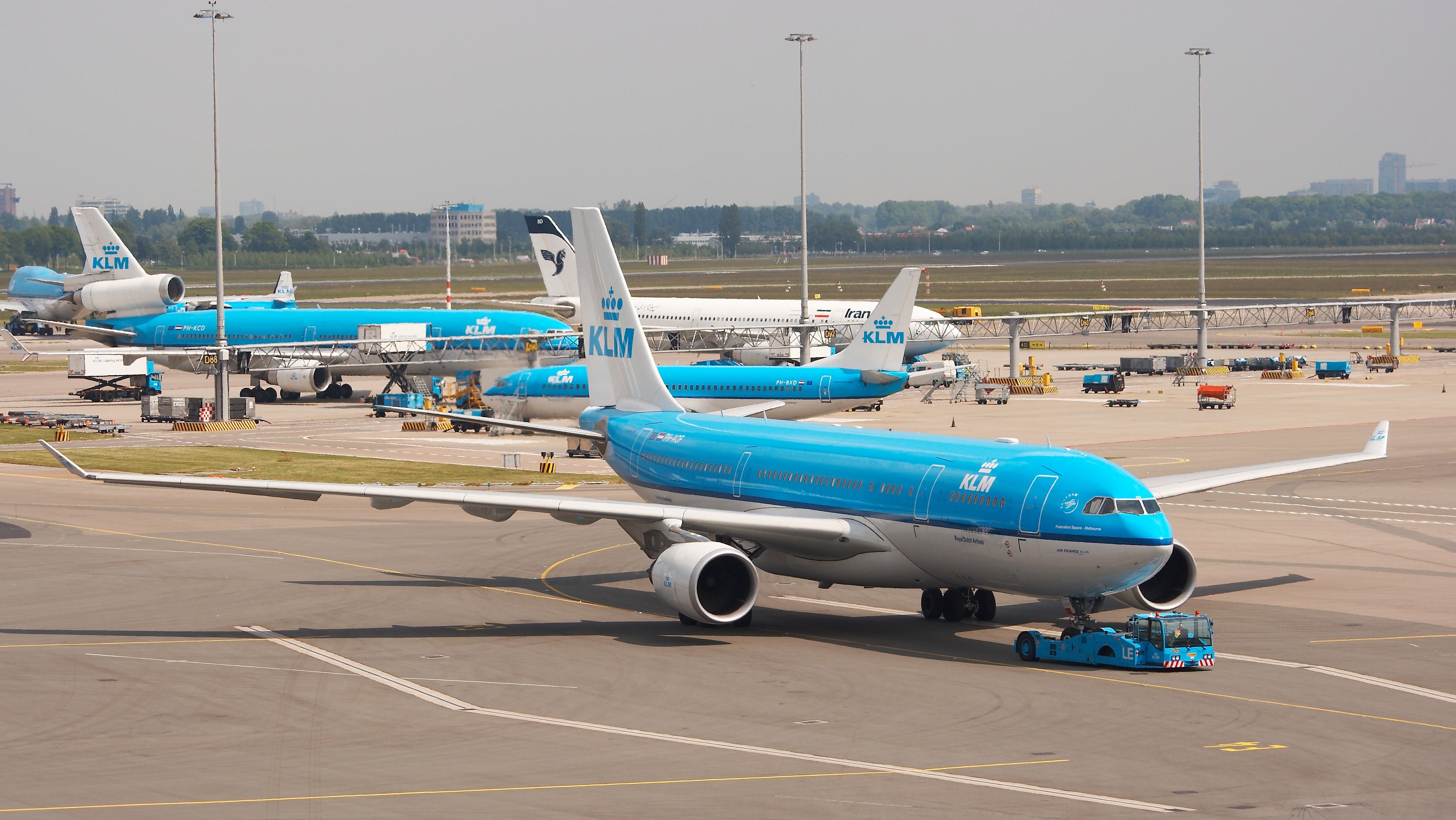 A KLM Airbus A330-200 at Amsterdam Airport Schiphol